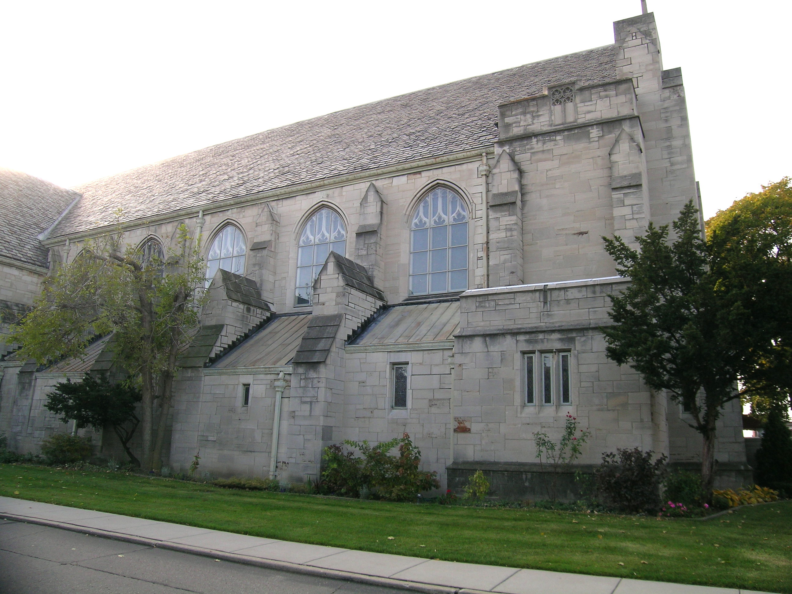 Assumption of the Blessed Virgin Mary Church side elevation